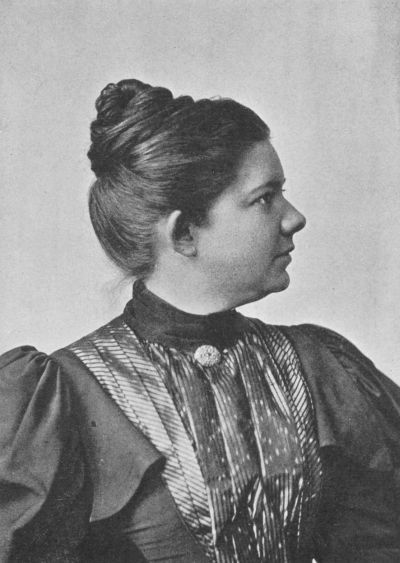 Amy Beach.